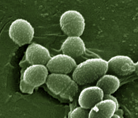 Scanning Electron Micrograph of Enterococcus faecalis